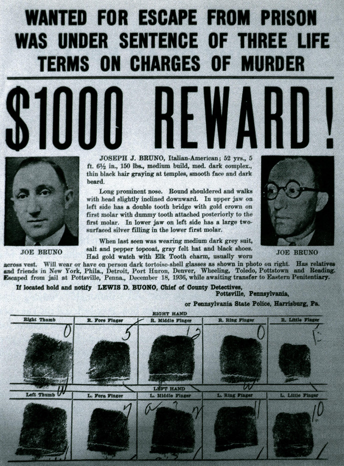 Wanted poster for Joseph James Bruno, mastermind of the Kelayres massacre, prison escapee.